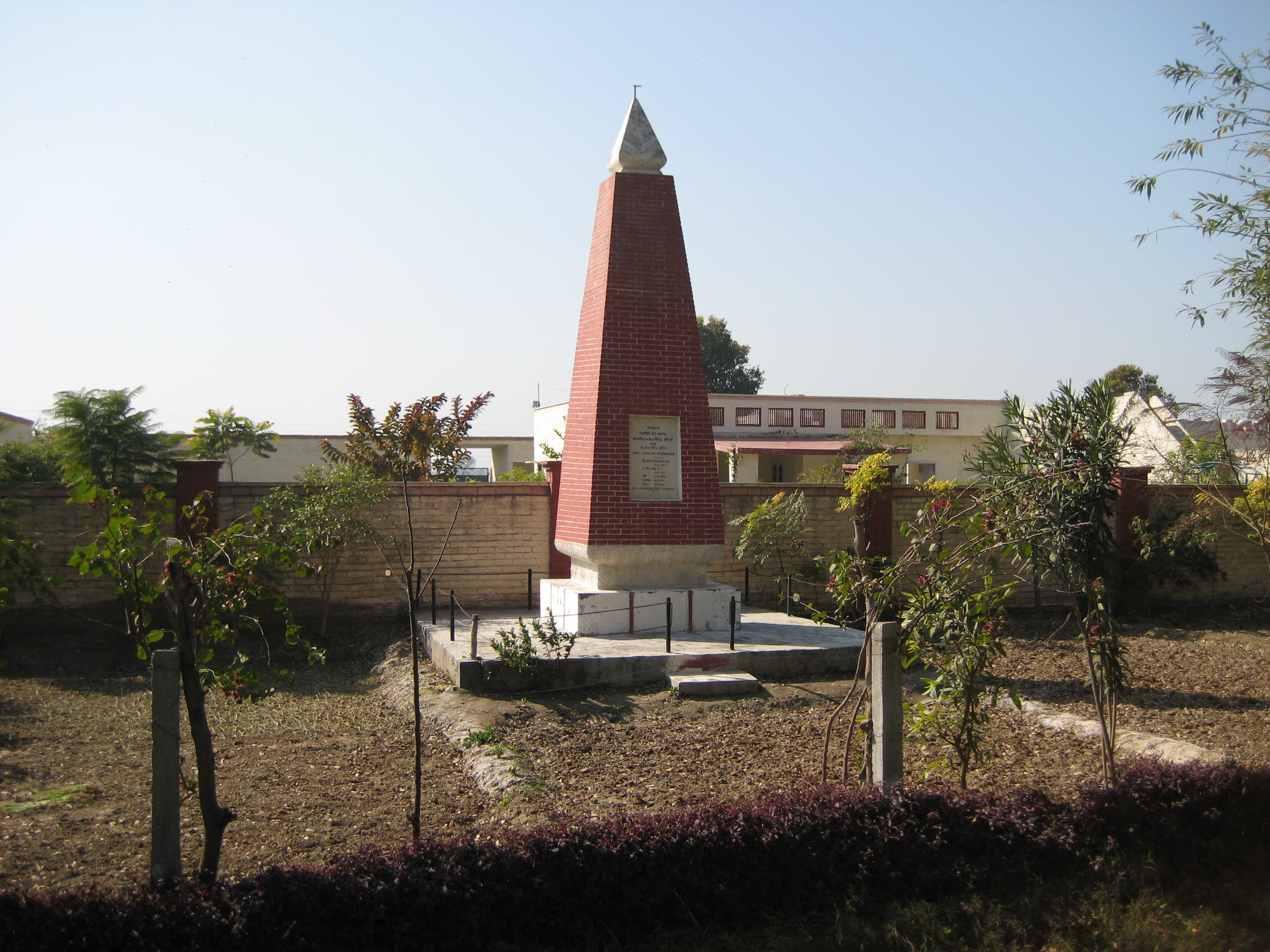 Monument dedicated to Comrade Achhar Singh Chhina in Harsha Chhina in the state of Punjab, India.